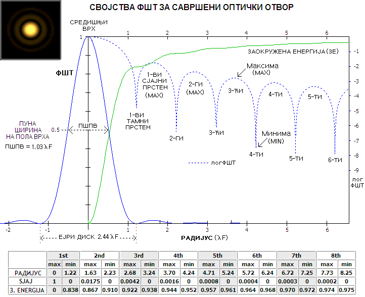 СВОЈСТВА ФУНКЦИЈЕ ШИРЕЊА ТАЧКЕ ЗА САВРШЕН ОПТИЧКИ ОТВОР